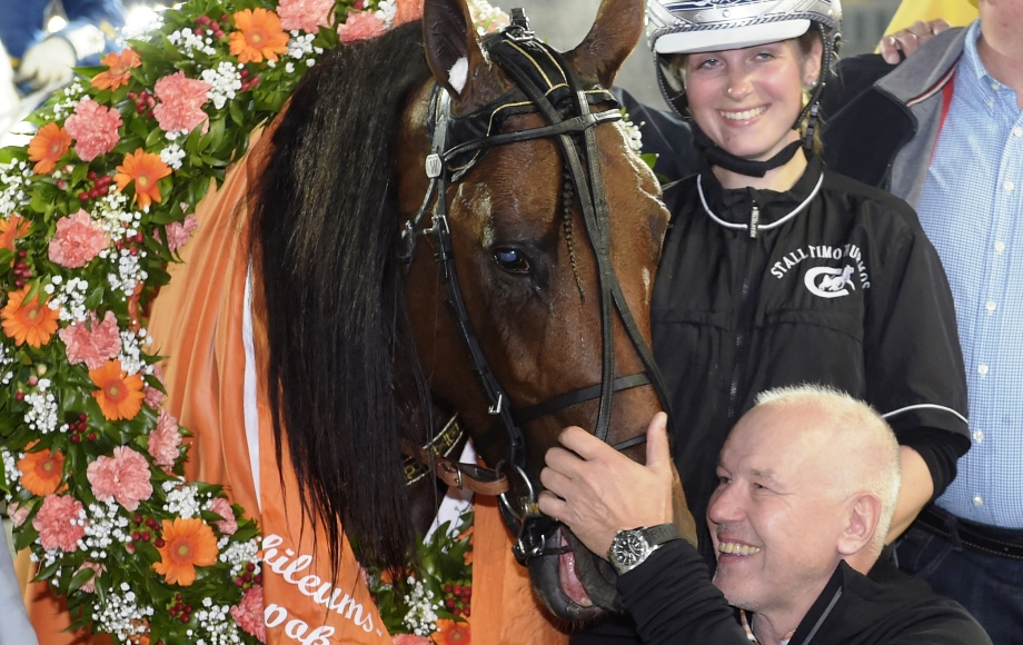 Readly Express & Timo Nurmos after winning Jubileumspokalen at Solvalla 2017-08-16.